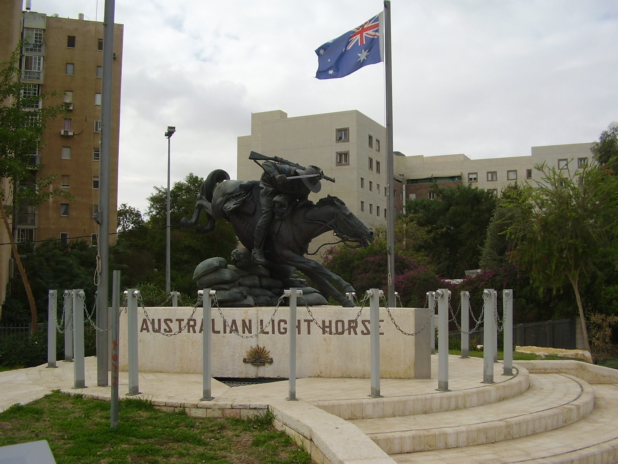 australian light horse monument (first world war) in be\'er sheva